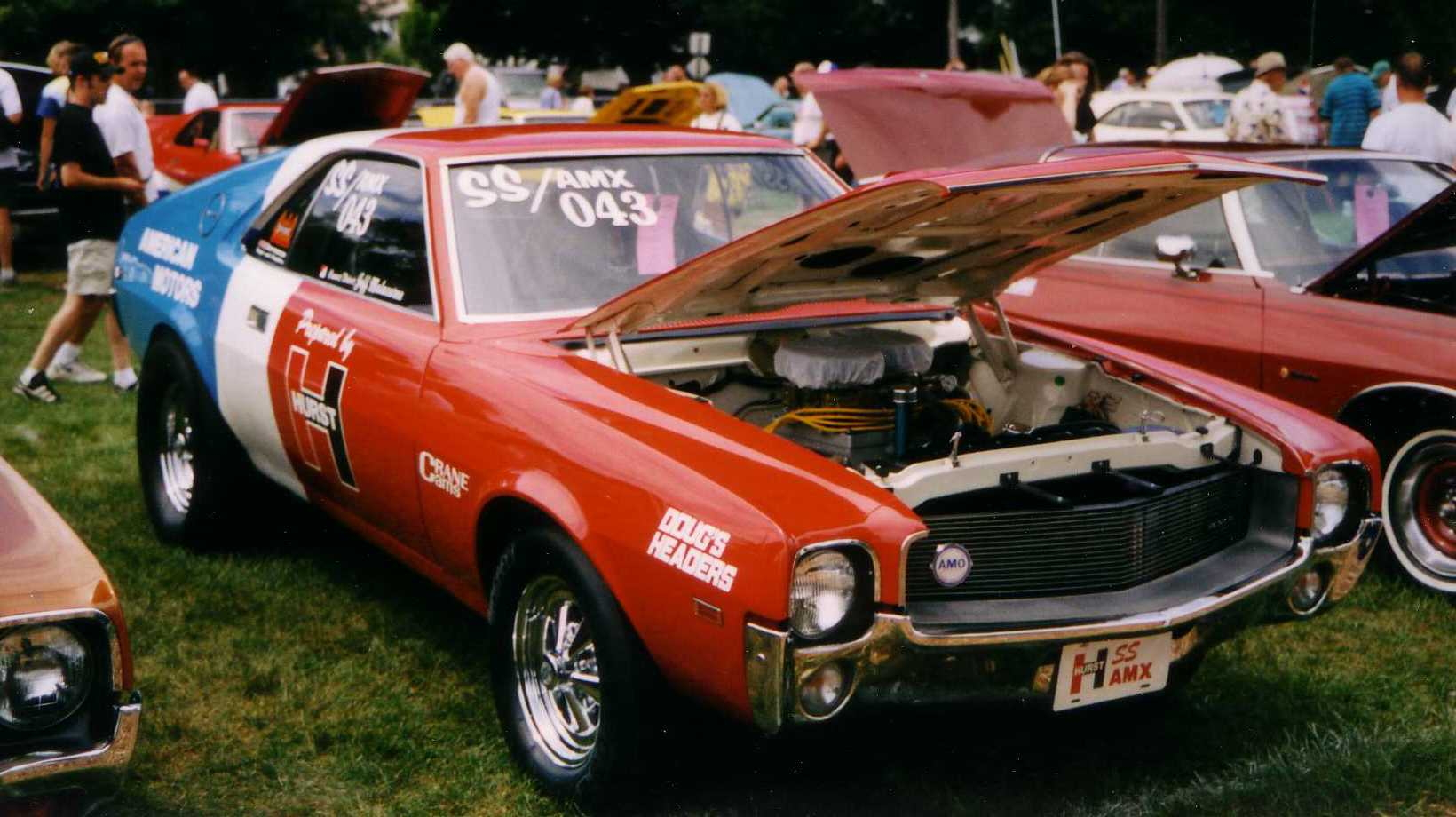 1969 Super Stock AMX by AMC (American Motors Corporation) and Hurst Performance. This is a special factory prepared model for drag racing. The two-seat, GT-type sports coupe has minimum comfort features, but is powered by AMC's 390 CID (6.4 L) V8 engine with twin Holley carburetors and 12.3:1 compression-ratio cylinder heads, and "Doug’s" headers and exhaust system. Picture was taken at the classic AMC show in Kenosha, Wisconsin.